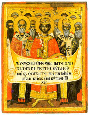 Icon from Mount Athos depicting the First Ecumenical Council at Nicaea.